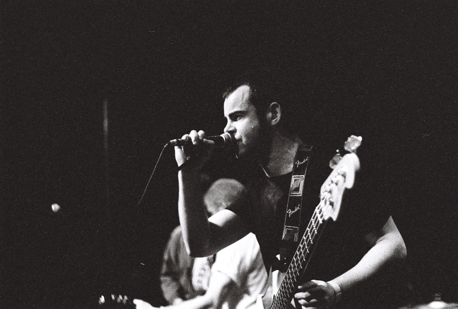 Falco playing at the Triple Rock Social Club in Minneapolis, November 6, 2012.